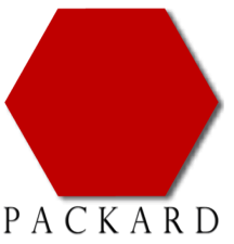 Dark red hexagon (generic shape and color), lettering, Perpetua Titling MT, spelling Packard.